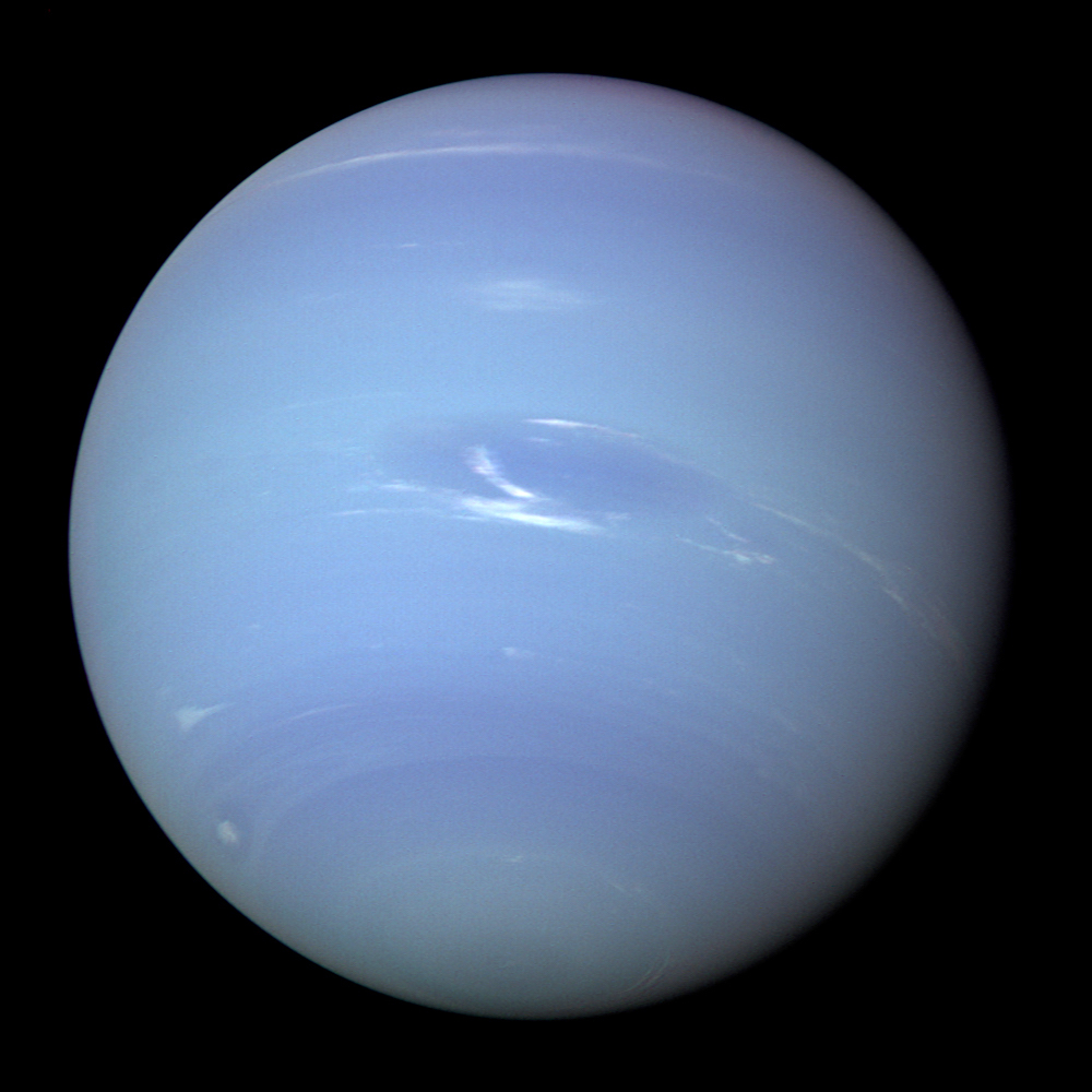 Uploader's notes: The original NASA/Cowart PNG image has been modified by flattening (combining layers), cropping and converting to JPEG format. Original caption released with image: Voyager 2 Narrow Angle Camera image of Neptune taken on August 20, 1989 as the spacecraft approached the planet for a flyby on August 25. The Great Dark Spot, flanked by cirrus clouds, is at center. A smaller dark storm, Dark Spot Jr., is rotating into view at bottom left. Additionally, a patch of white cirrus clouds to its north, named "Scooter" for its rapid motion relative to other features, is visible. This image was constructed using orange, green and synthetic violet (50/50 blend of green filter and UV filter images) taken between 626 and 643 UT. Image Credit: NASA / JPL / Voyager-ISS / Justin Cowart